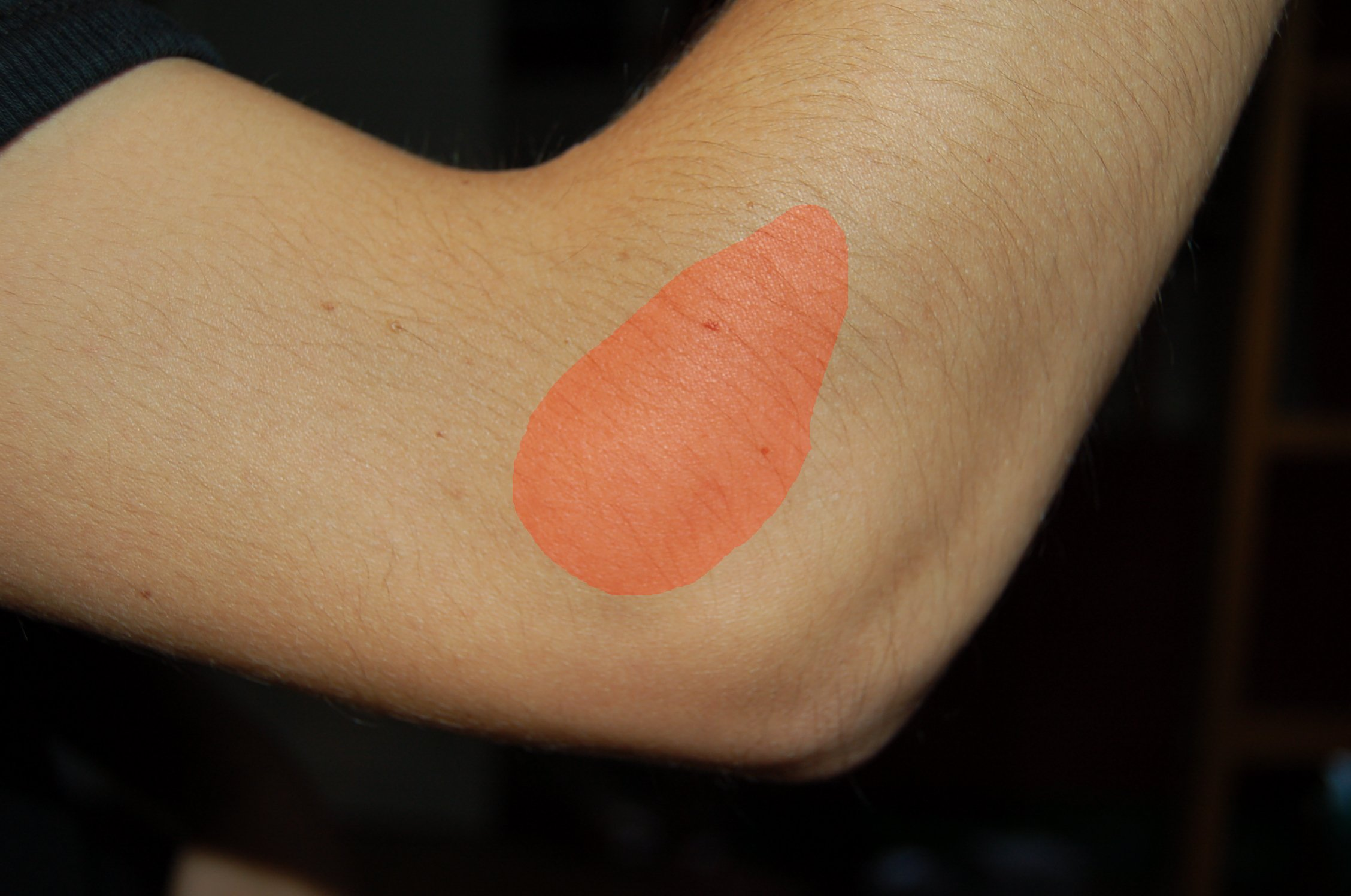 Elbow - coude